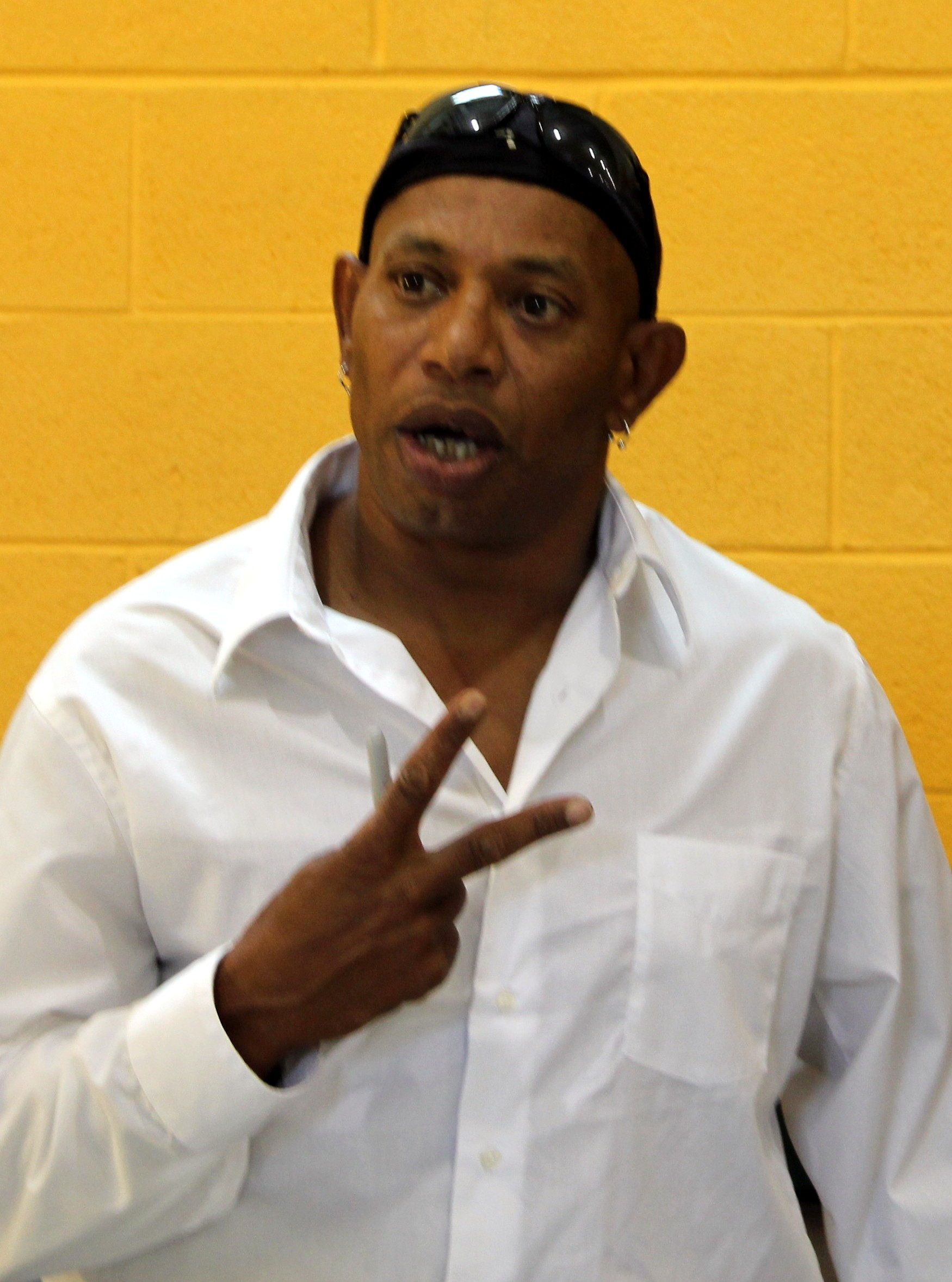 Professional wrestler Too Cold Scorpio at Chikara King of Trios 2012 Fan Conclave.